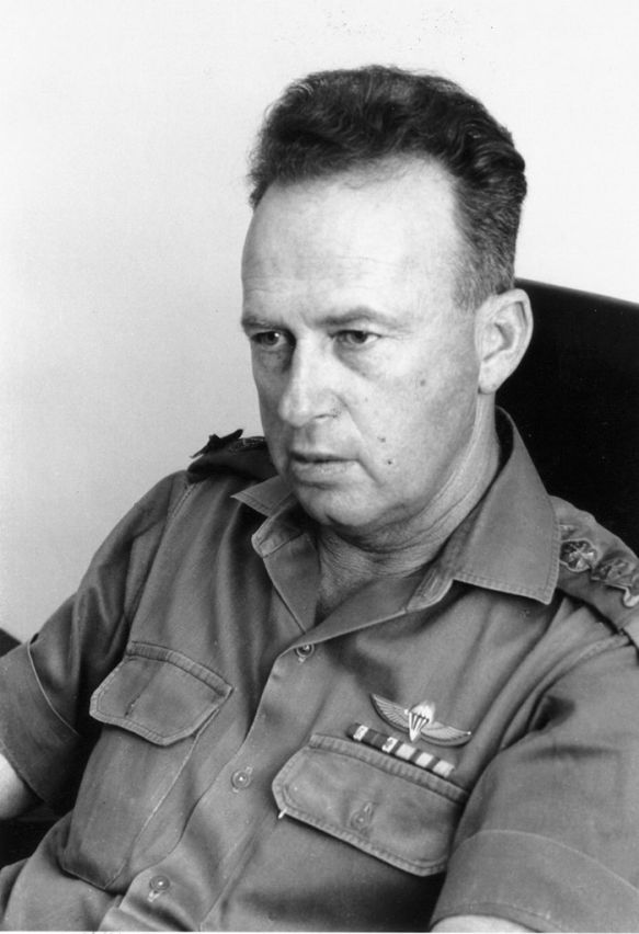 Lt. Gen. Yitzhak Rabin starting his way as the IDF Chief of Staff, in 1964.